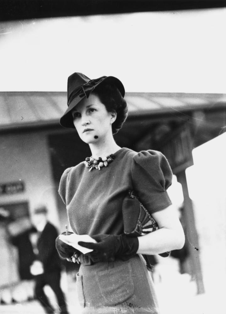 Mrs Blackburne at the Doomben race meeting, 1940 Smartest toilette seen at yesterday's Doomben meeting was worn by atttractive Mrs Blackburne, a study in Robin Hood green with imitation fruit trimmings on her frock. (Description supplied with photograph).